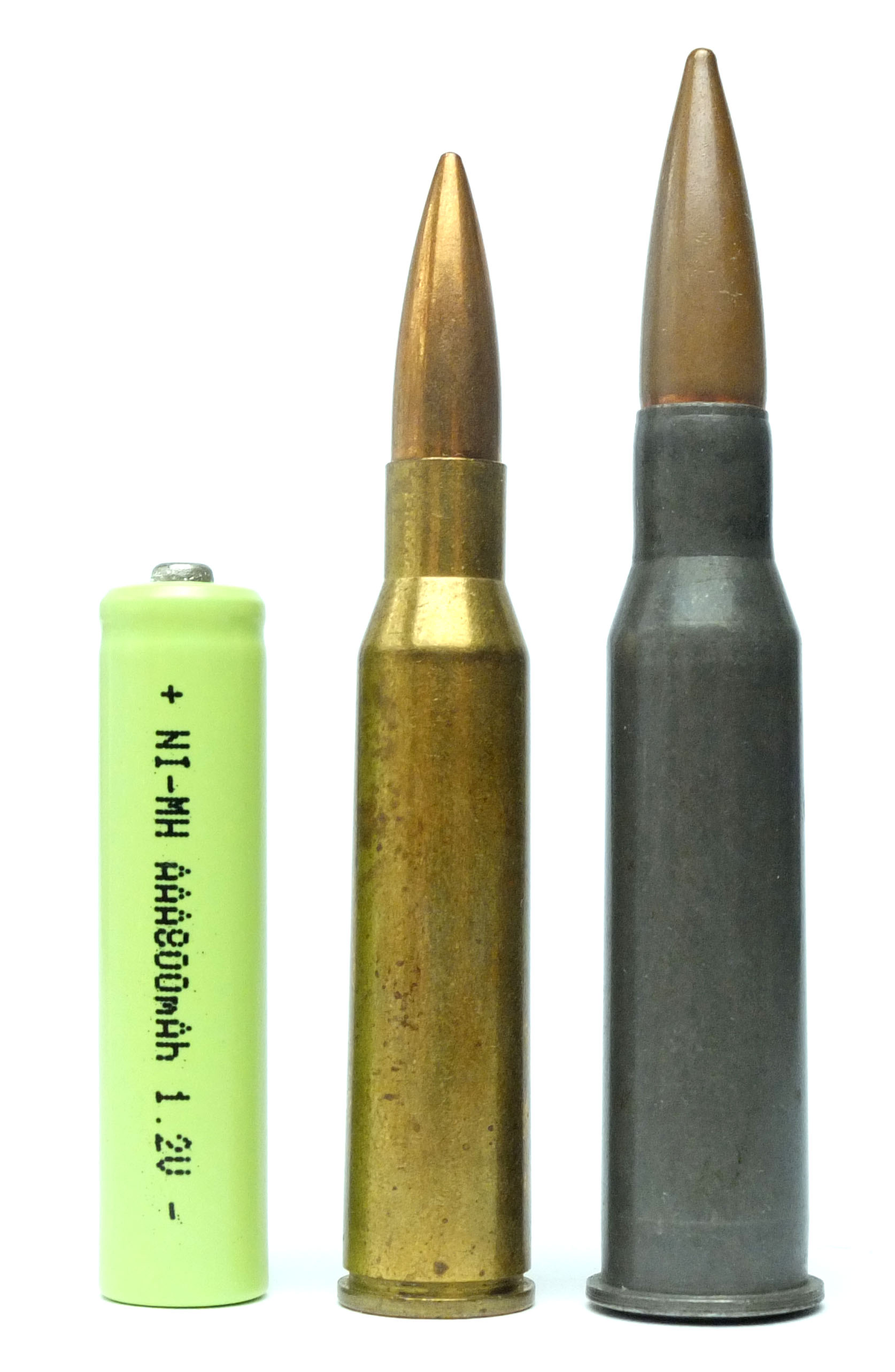 Cartridge Comparison 6.5x50mm Arisaka and 7.62x54mmR 2